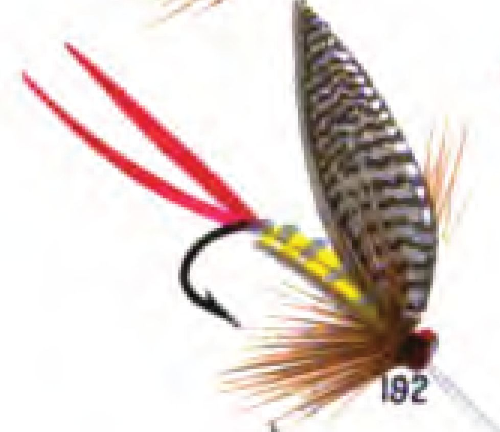 The Professor - A Trout fly from Plate T of Favorite Flies and Their Histories, Mary Orvis Marbury, 1892